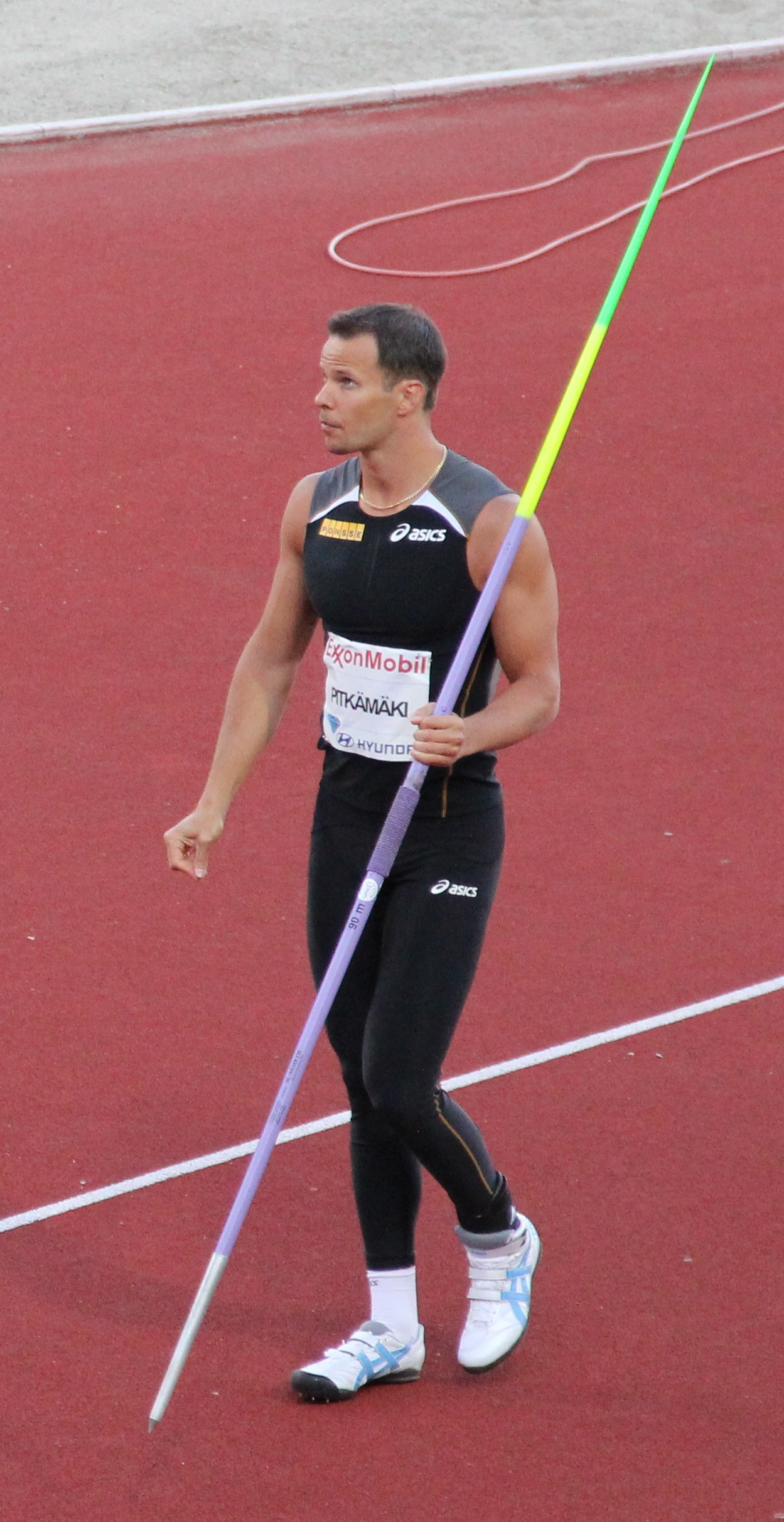 Tero Pitkämäki at the 2010 Bislett Games